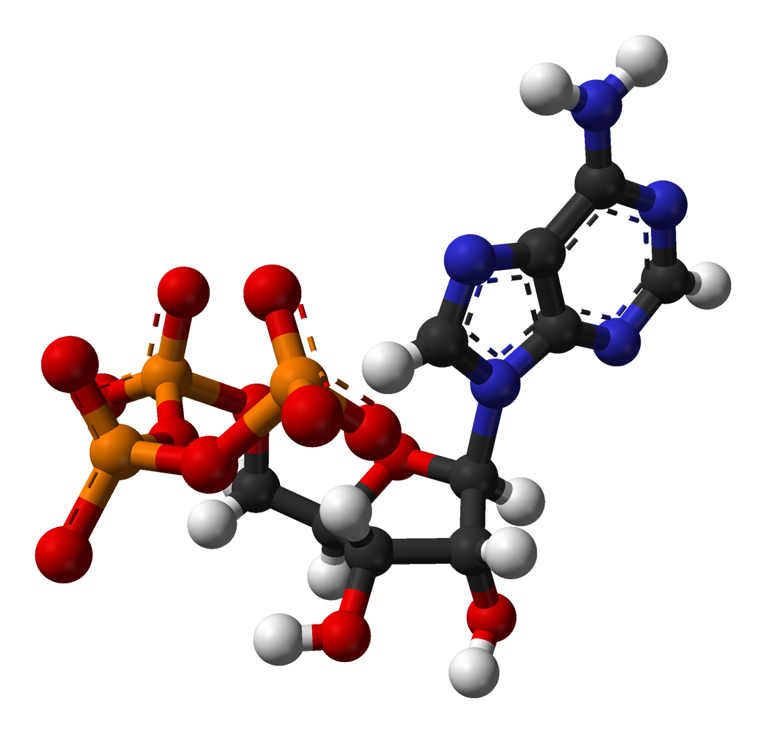 Ball-and-stick model of adenosine triphosphate (ATP), based on x-ray diffraction data from Olga Kennard, N. W. Isaacs, W. D. S. Motherwell, J. C. Coppola, D. L. Wampler, A. C. Larson, D. G. Watson (1971). "The Crystal and Molecular Structure of Adenosine Triphosphate". Proceedings of the Royal Society of London. Series A, Mathematical and Physical Sciences 325: 401-436.